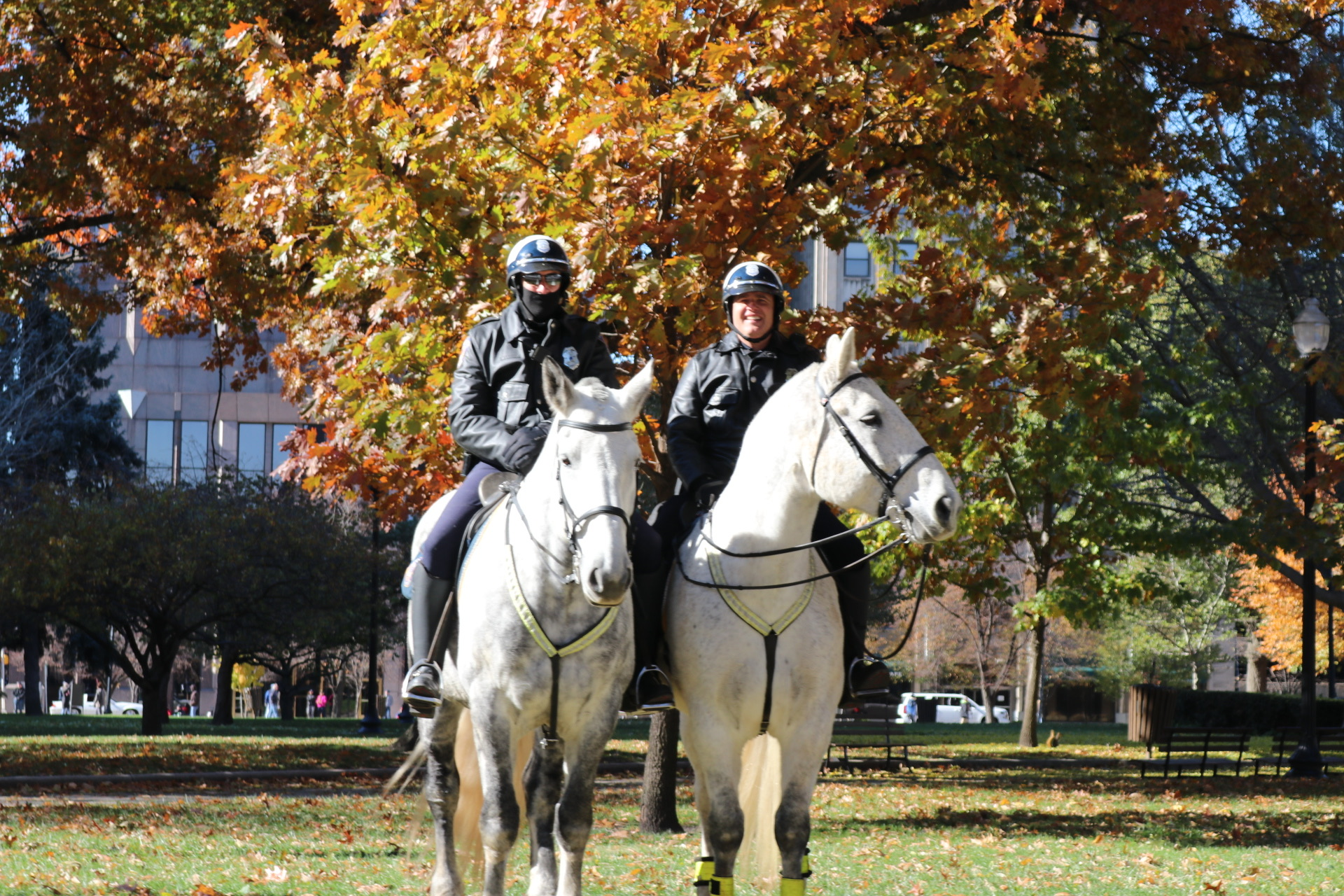 This photo depicts officers of the Indianapolis Metropolitan Police Department Mounted Patrol in Indianapolis, Indiana, USA in November 2018.